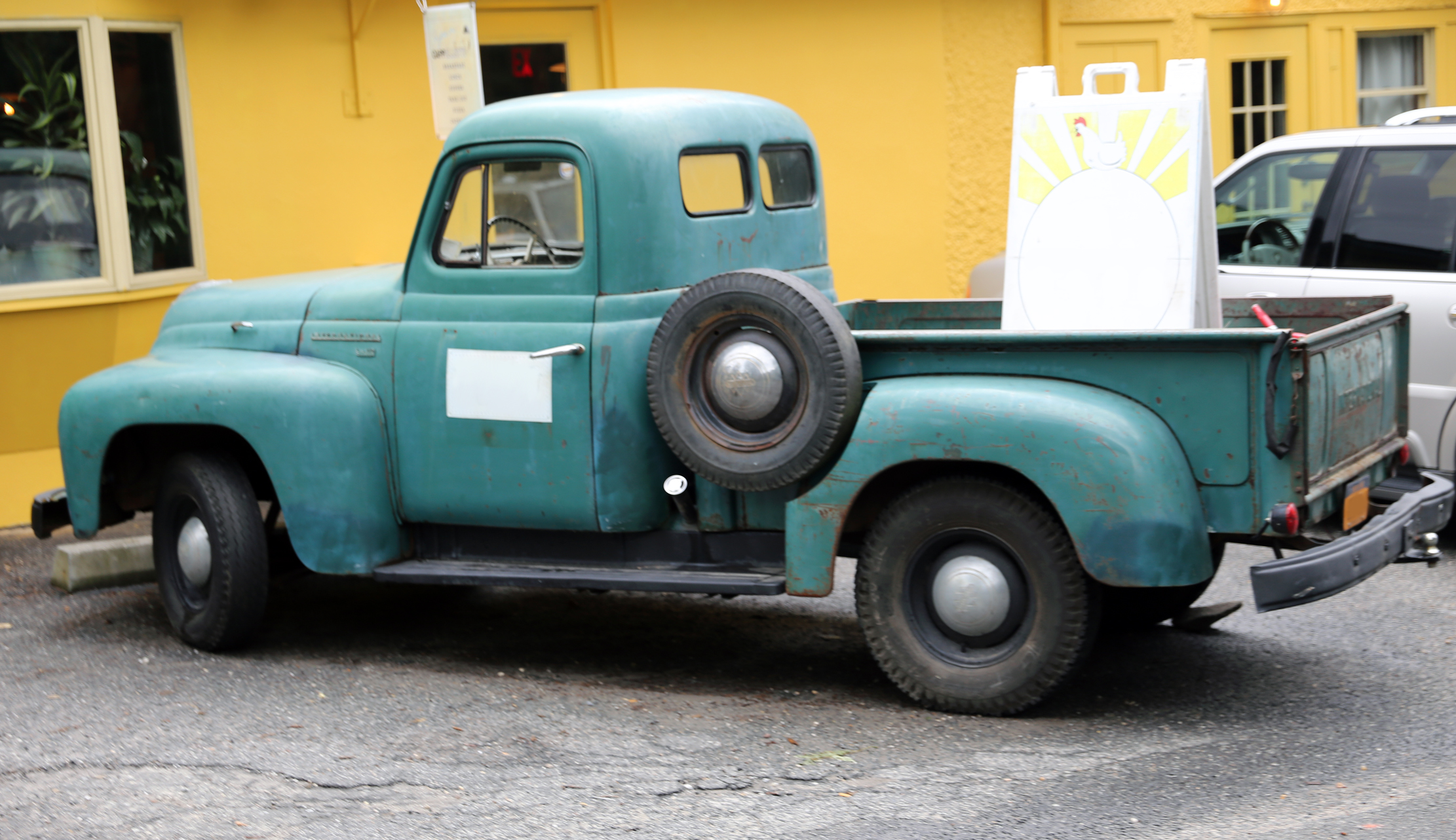 Rear view of a 1949-1952 International Harvester L-110 now used as a billboard outside some sort of eatery in Long Island, NY. Sorry about the blur, but this was a busy street and I almost got ran over. Better blurry than flattened.